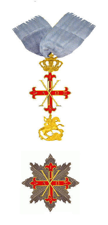 Ordine Costantiniano di San Giorgio